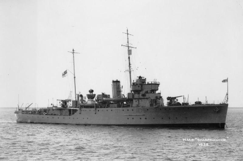 Photograph of British Halcyon class minesweeper HMS Sharpshooter.